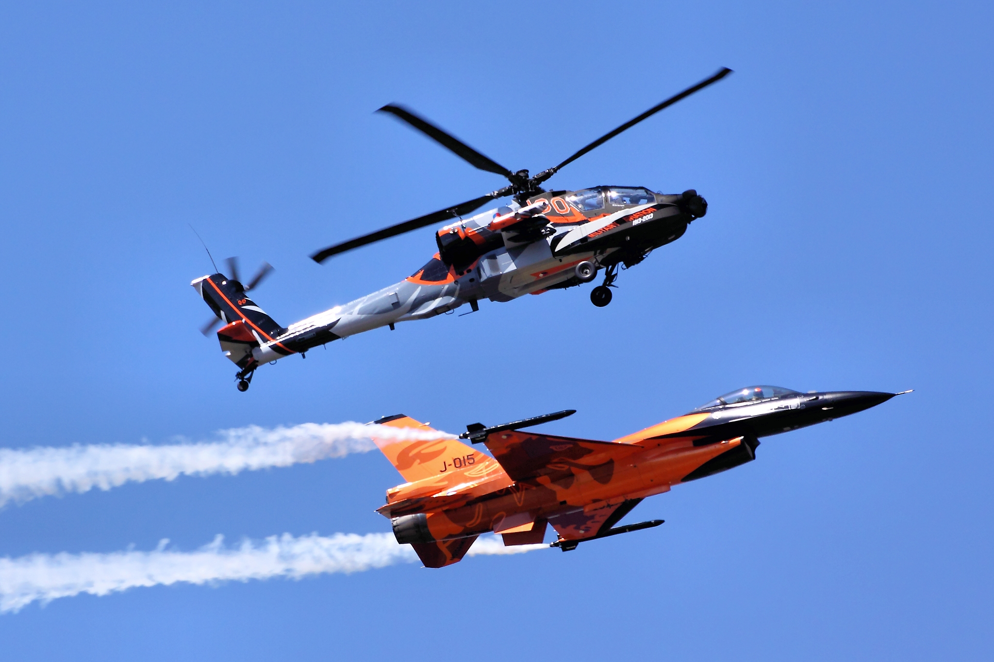 AH64 Apache & F16 - RIAT 2013